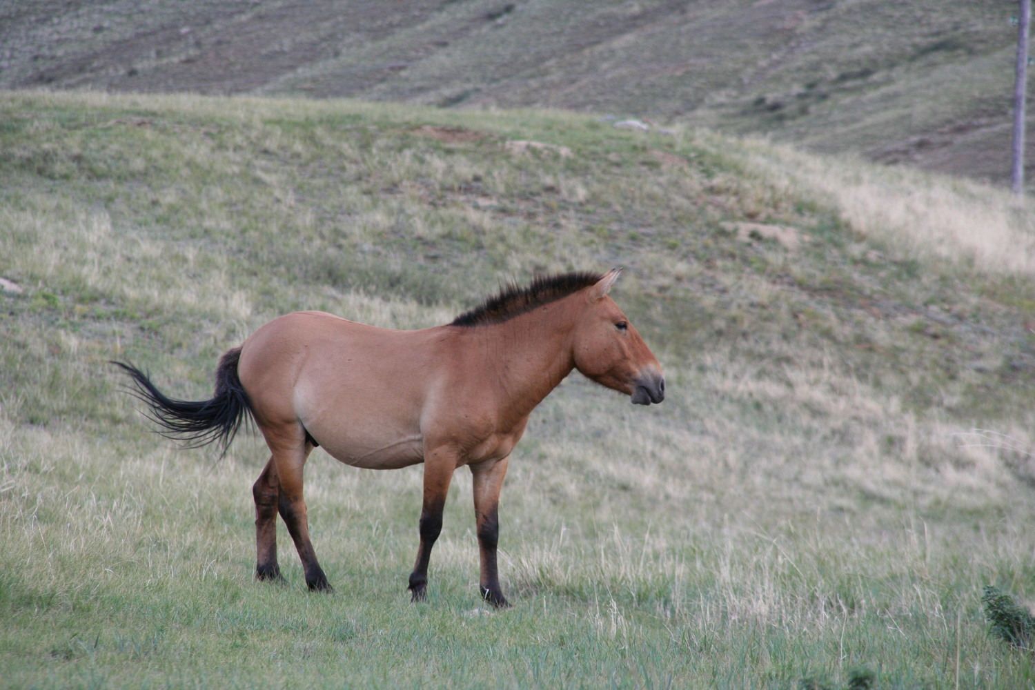 Przewalski's horse in Hustain Nuruu National Park